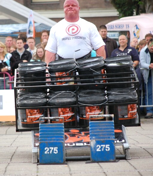 Jan Wagenaar - a strength athlete from the Netherlands.